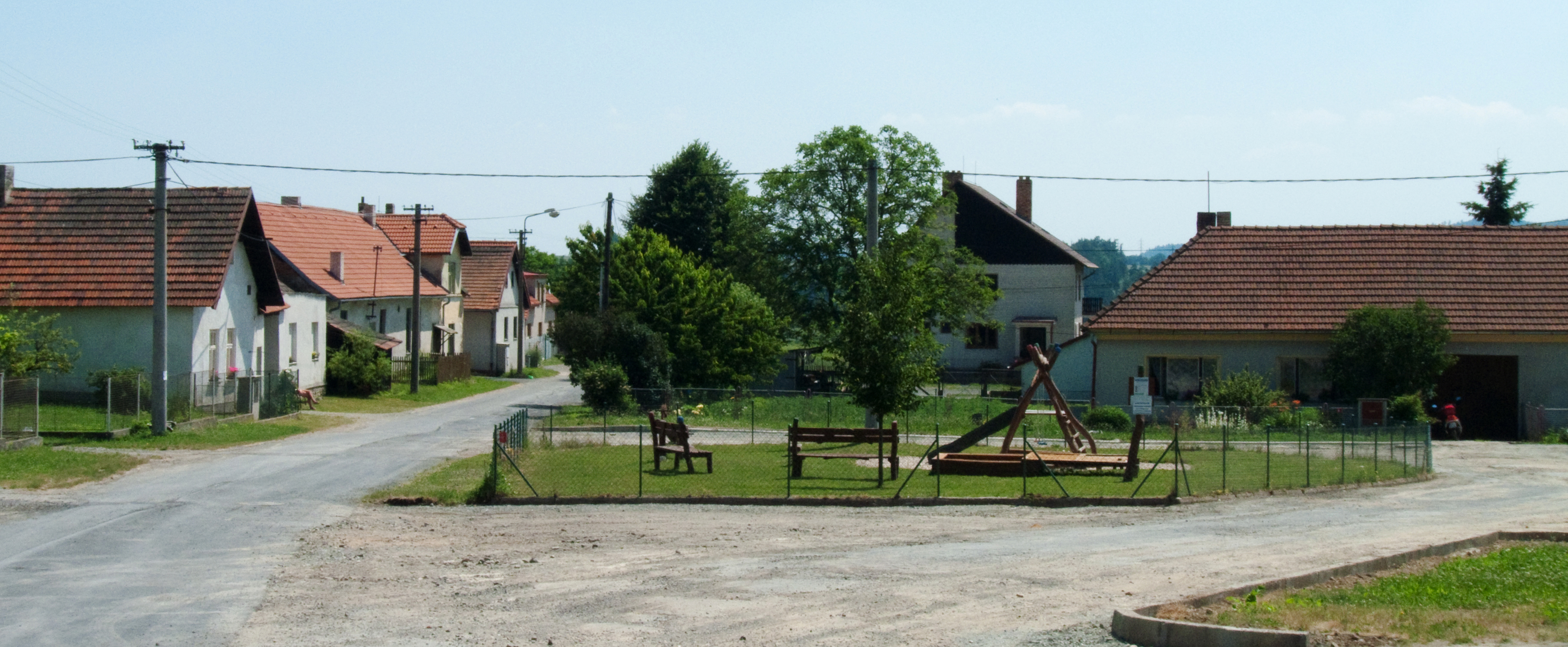 View towards a playground in the village of Rataje, Benešov district, Czech Republic